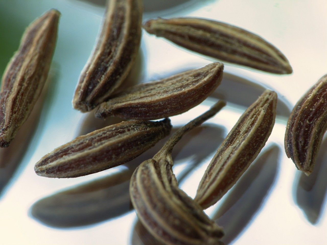 Some Caraway seeds sitting on a mirror.